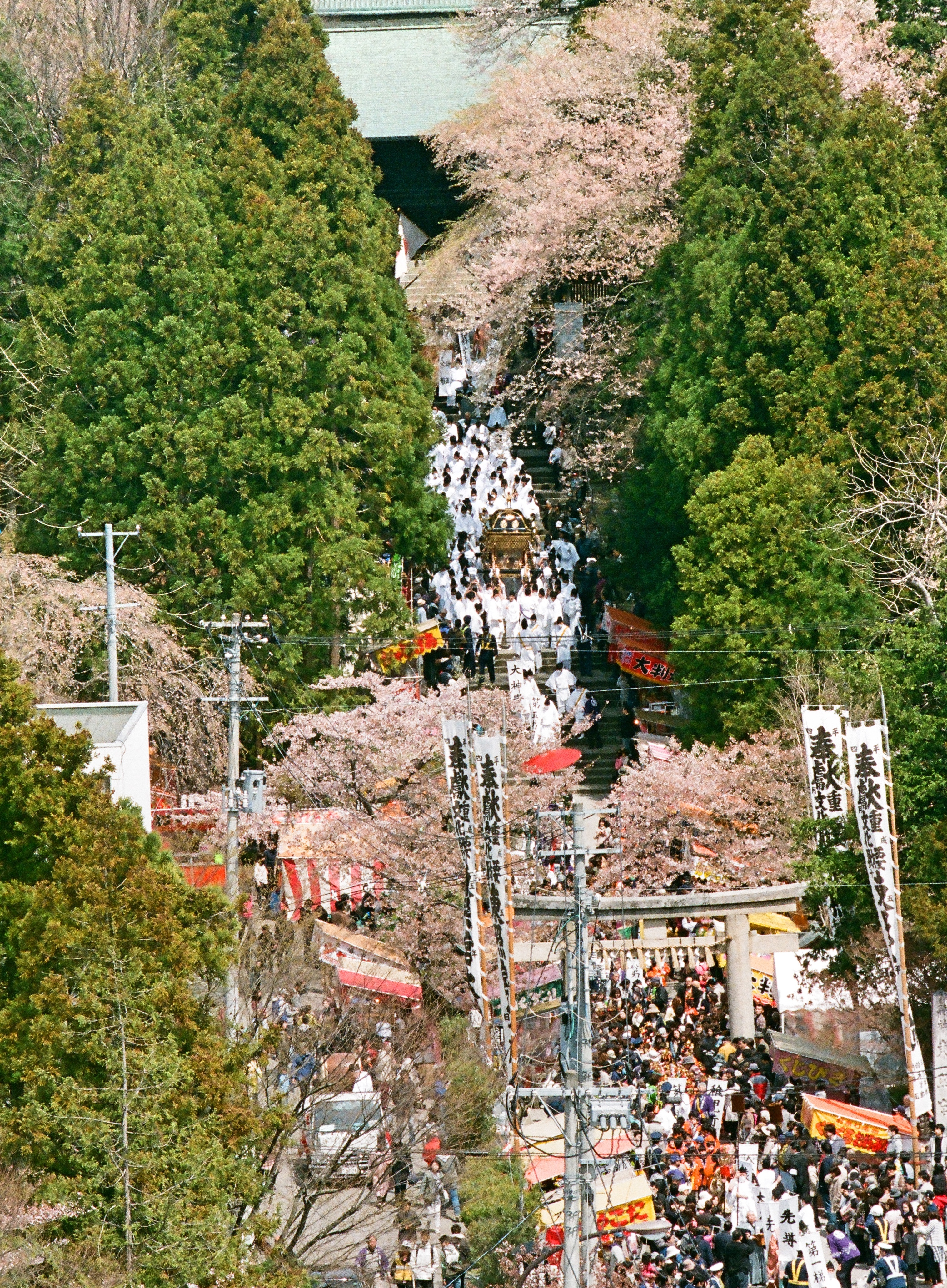 Mikoshi, or portable shrine procession coming down from the Tōshō-gū shrine in Sendai, Miyagi prefecture, Japan. Dating from 1655 and dedicated to Tokugawa Iyeyasu, the annual ritual was once called Sendai matsuri.